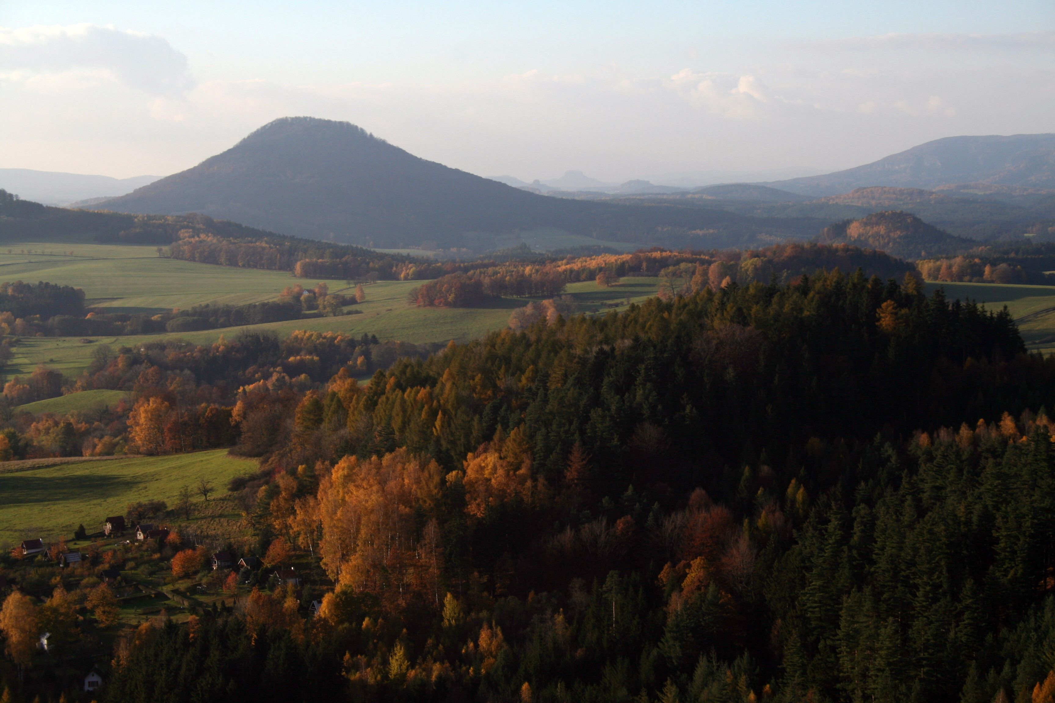 View at Ruzovsky vrch (Rosenberg, Růžovský hill) from Jehla (Noldenberg, Needle hill). The part of Česká Kamenice city is in the foreground.